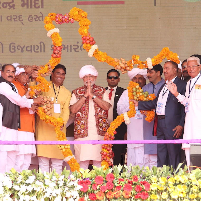 With Prime Minister of India Shri Narendrabhai Modi at Deesa airport on Plan inauguration's event of Banas Dairy.